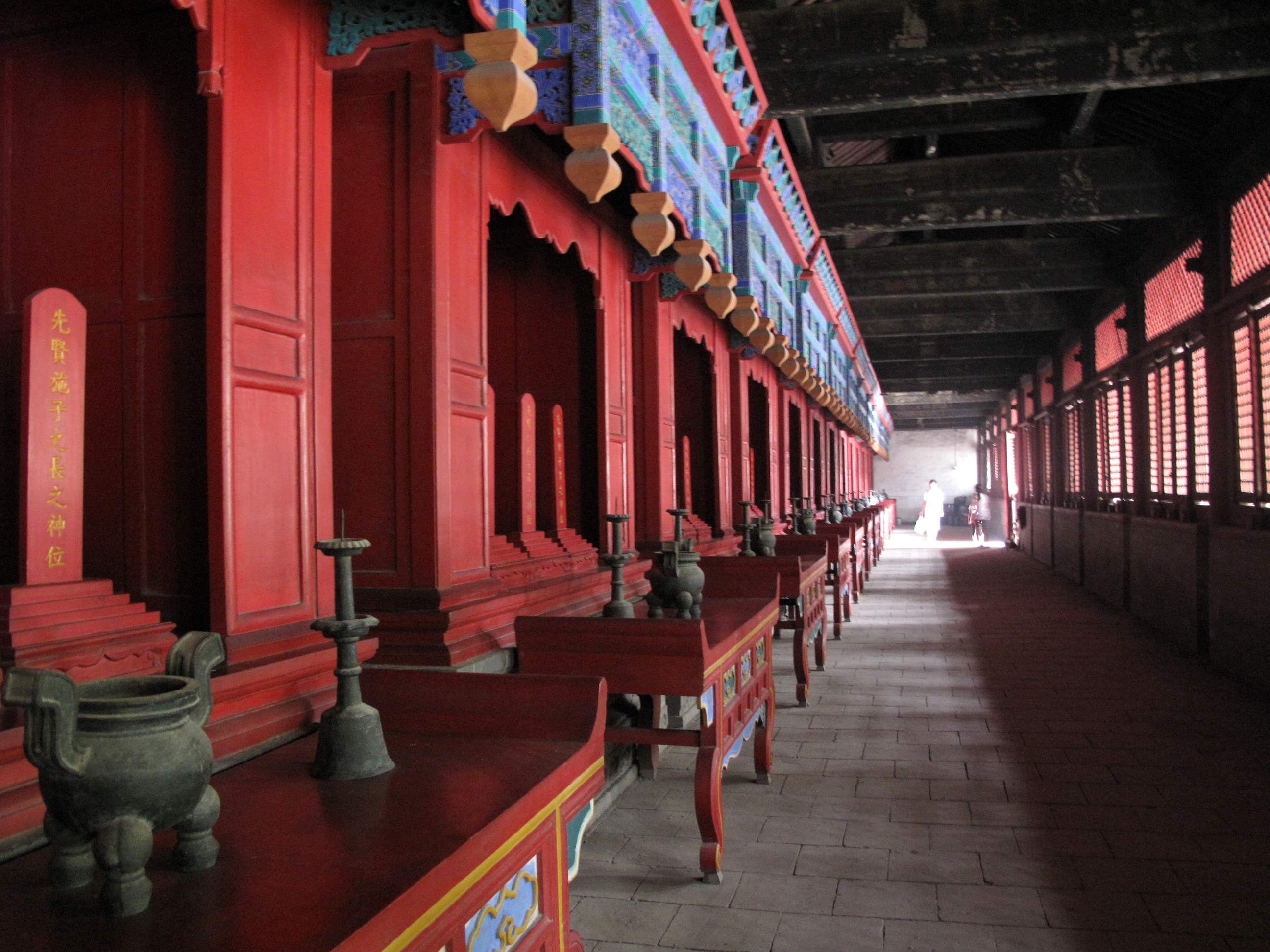 Ancestor Tablets. Confucius Temple, Qufu A row of ancestor tablets occupies the left side hall of the main courtyard. The Kong family descendants would visit these altars to pay their respects, seek advice, and report to the ancestors on important developments.